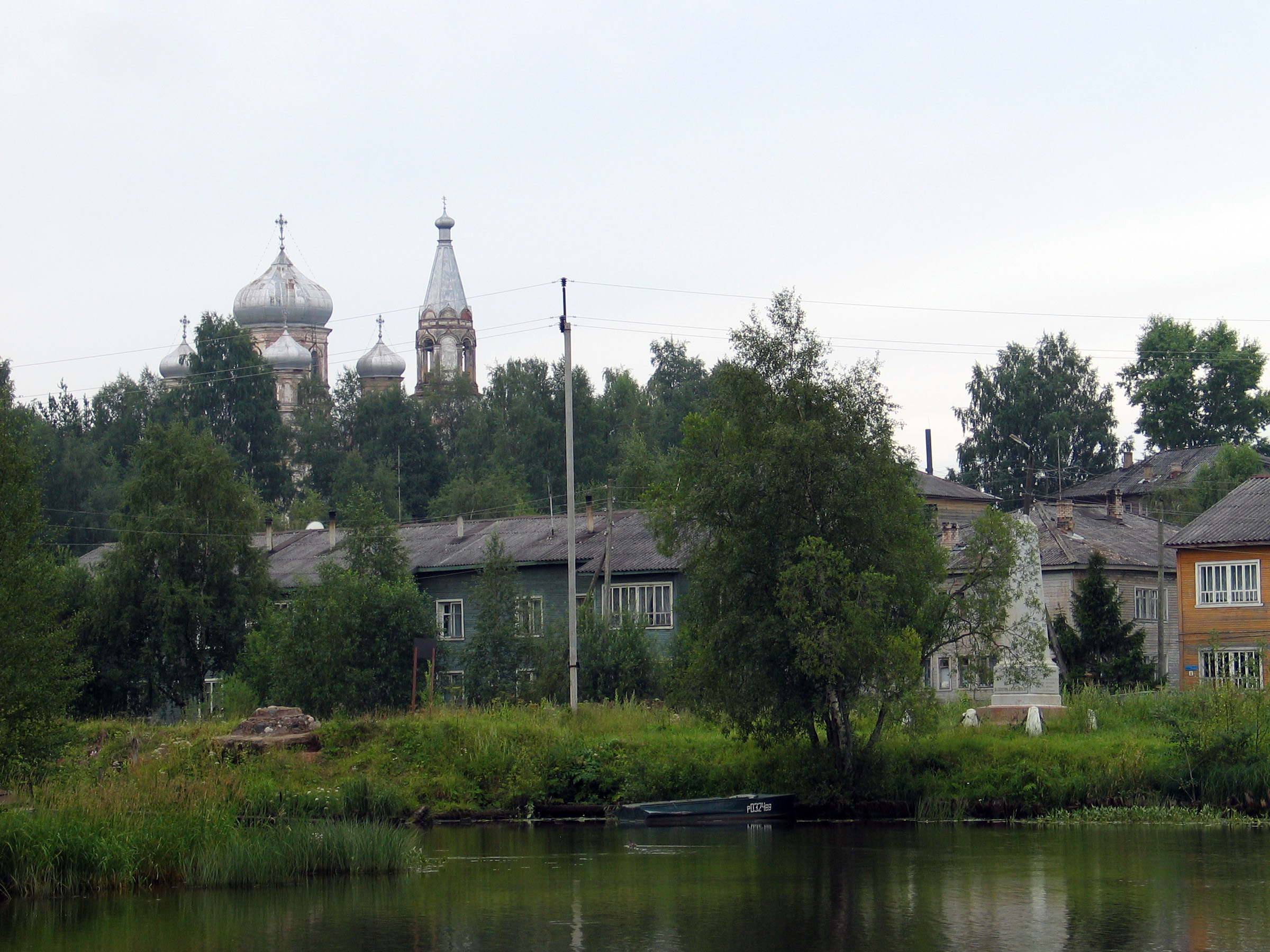 Russia, Vologda Oblast, Vytegra. Townview, Vytegra.